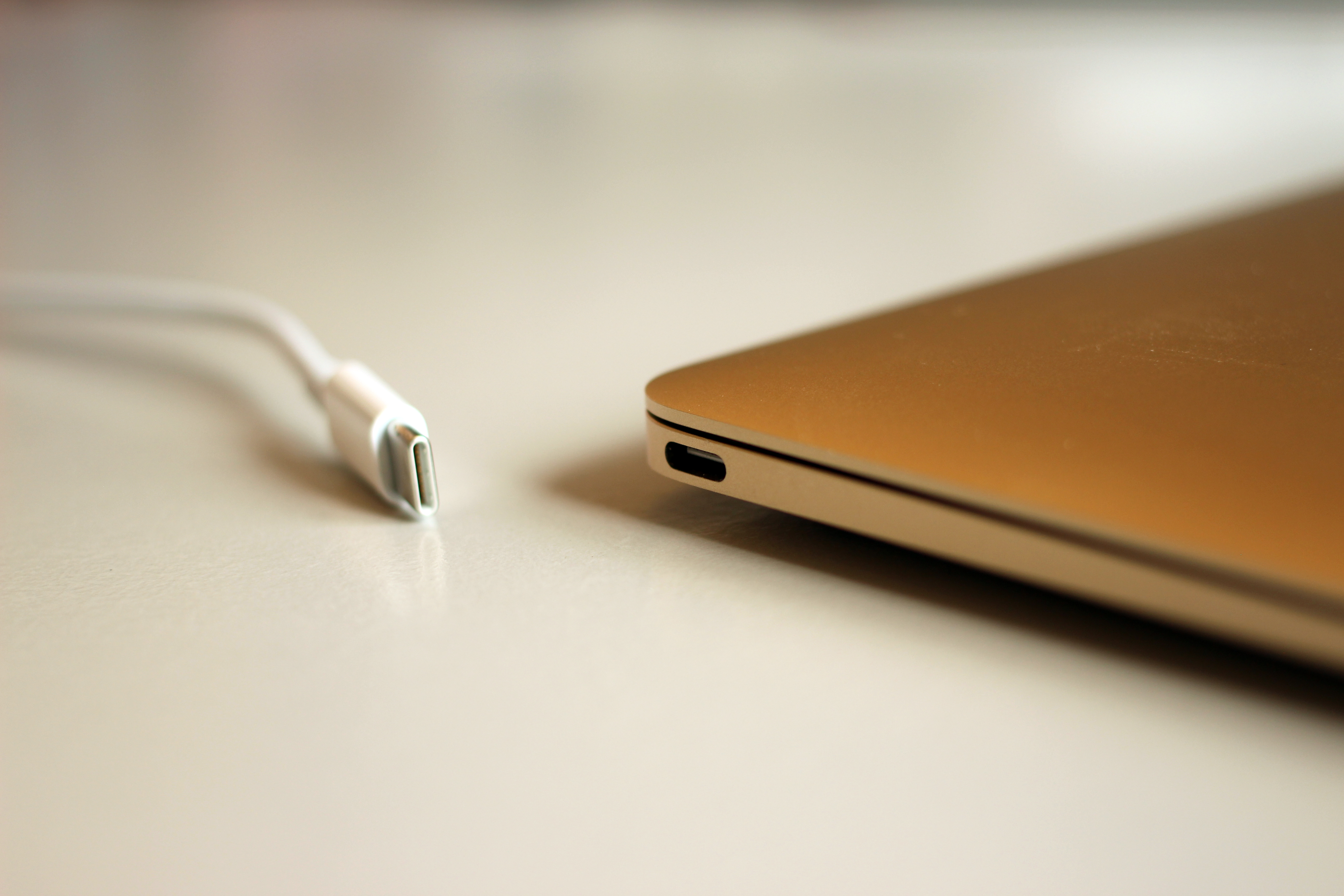 Photo of a MacBook with Retina Display (2015 model), showing the USB type-c connector